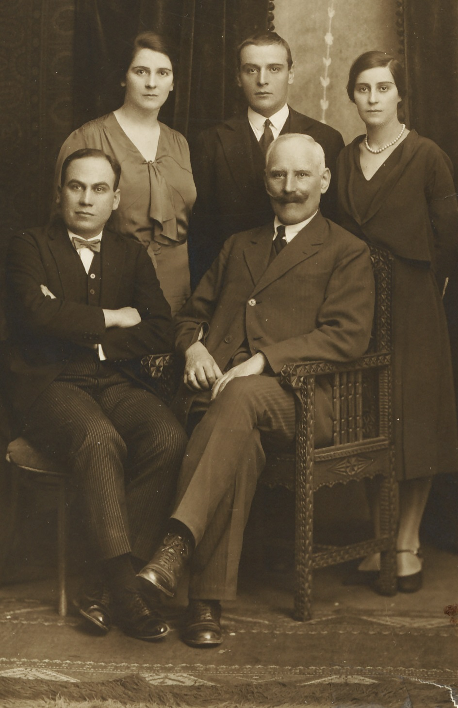 Sterie G. Ciumetti with his three children - Florica, Toni and Ana and Dr. Dumitru Bagdasarq husband of FloricăRomână: Fotografie cu familia lui Sterie Ciumetti, inginer constructor